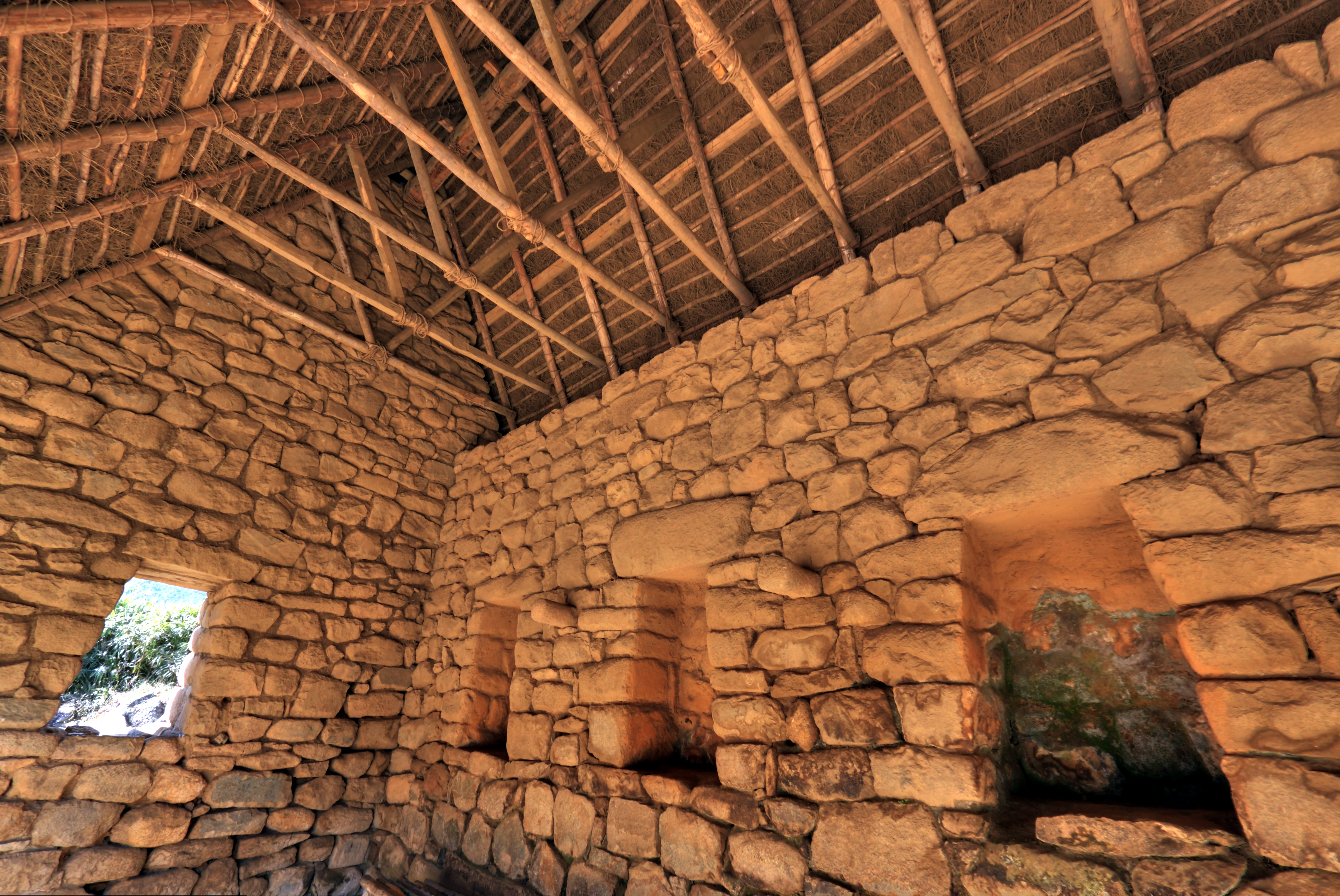 Please, have this description accessible to all by translating it in different languages.